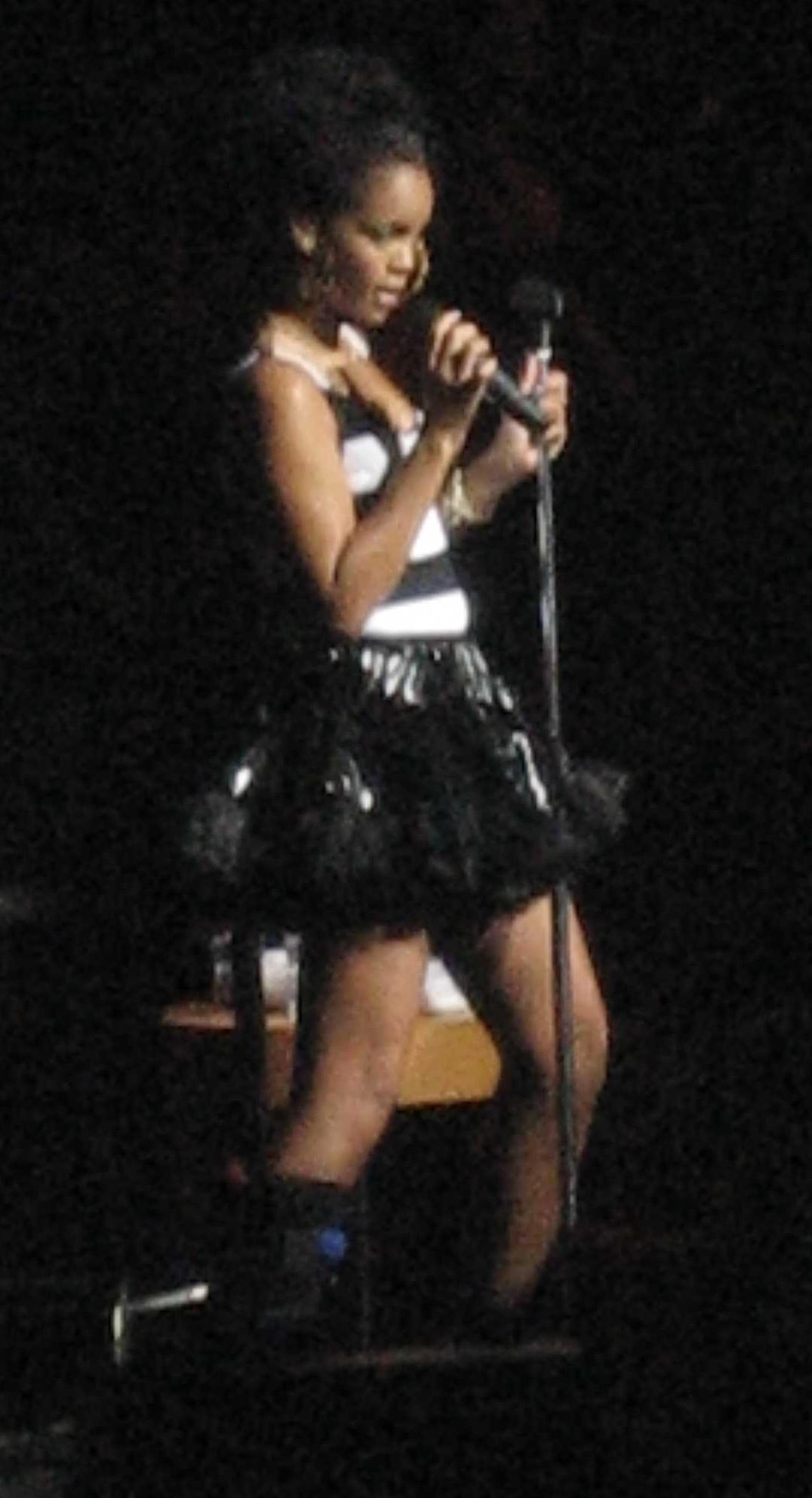 Rihanna live